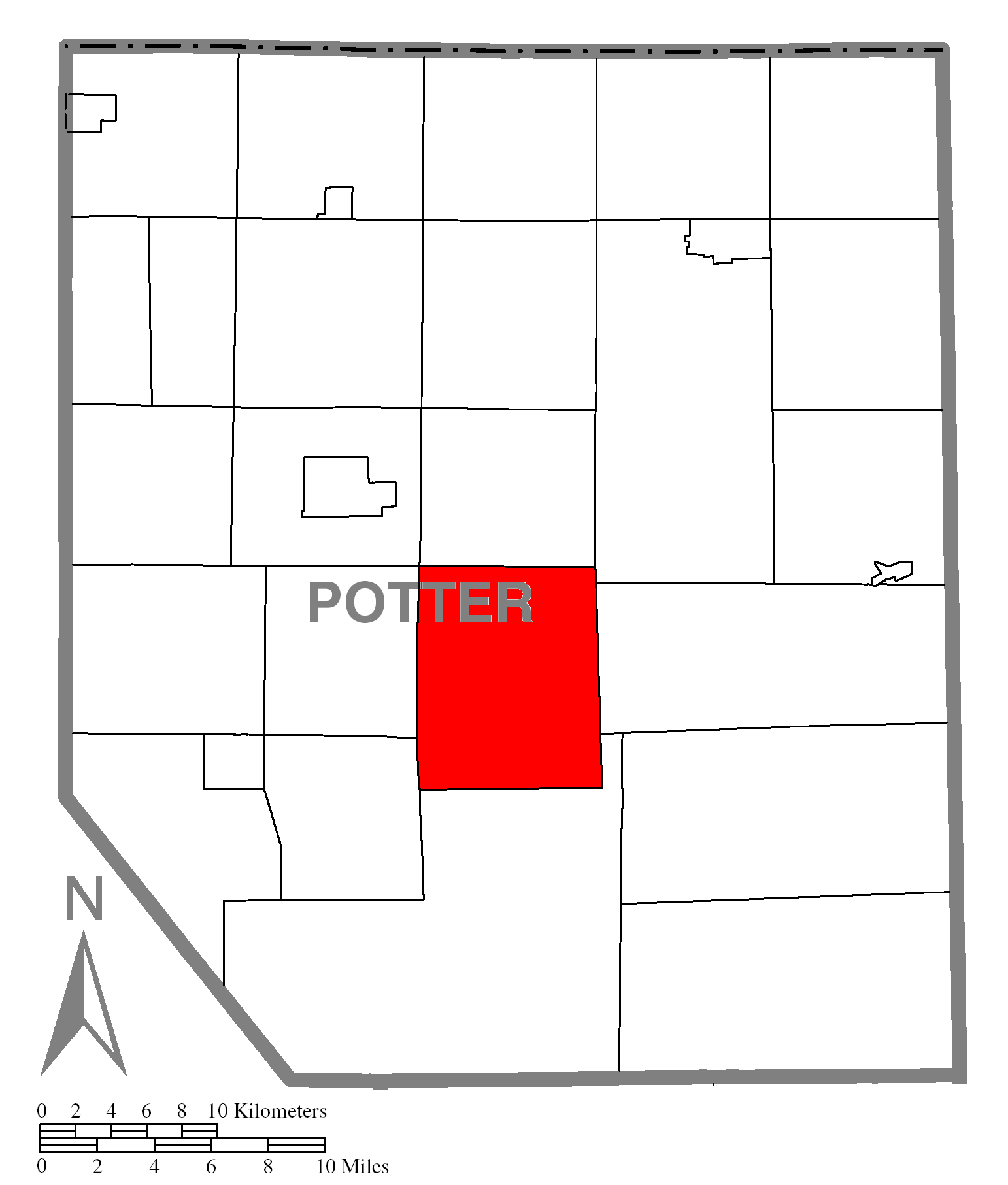 A map of Potter County showing Summit Township, Pennsylvania (alternate) highlighted on the map.